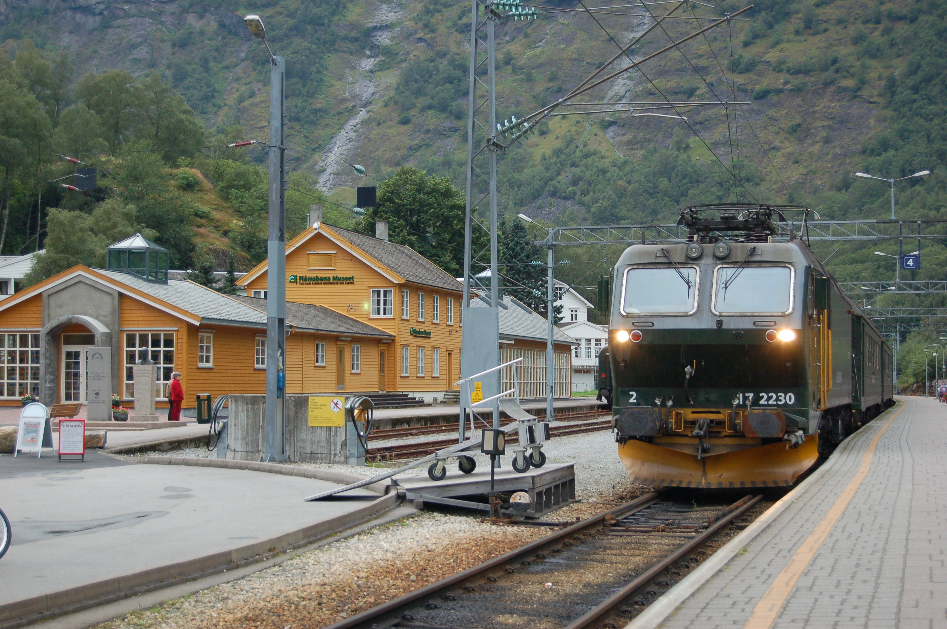 Flåmsbana train at Flåm Station, Norway